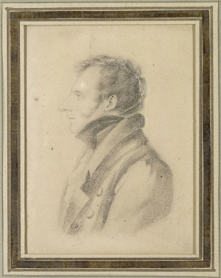 Drawing